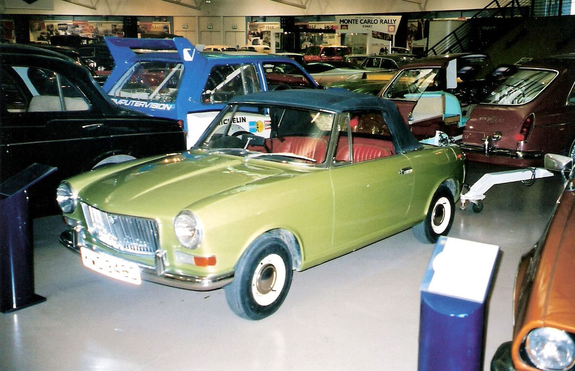 Mini based MG Midget concept car. Never made it to production. Taken in 2003 at the Heritage Motor Centre in Gaydon. Unfortunately poor quality due to cheap film camera then transfer to CD.